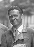 Cropped version focusing on Bennett Griffin. Original caption:US-American aviators James Mattern (left) and Bennett Griffin (right) in Berlin 1932 after they had to give up their flight round the world near Minsk, where they had to do an emergency landing.